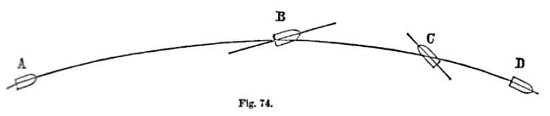 Eratic_bullet_trajectory